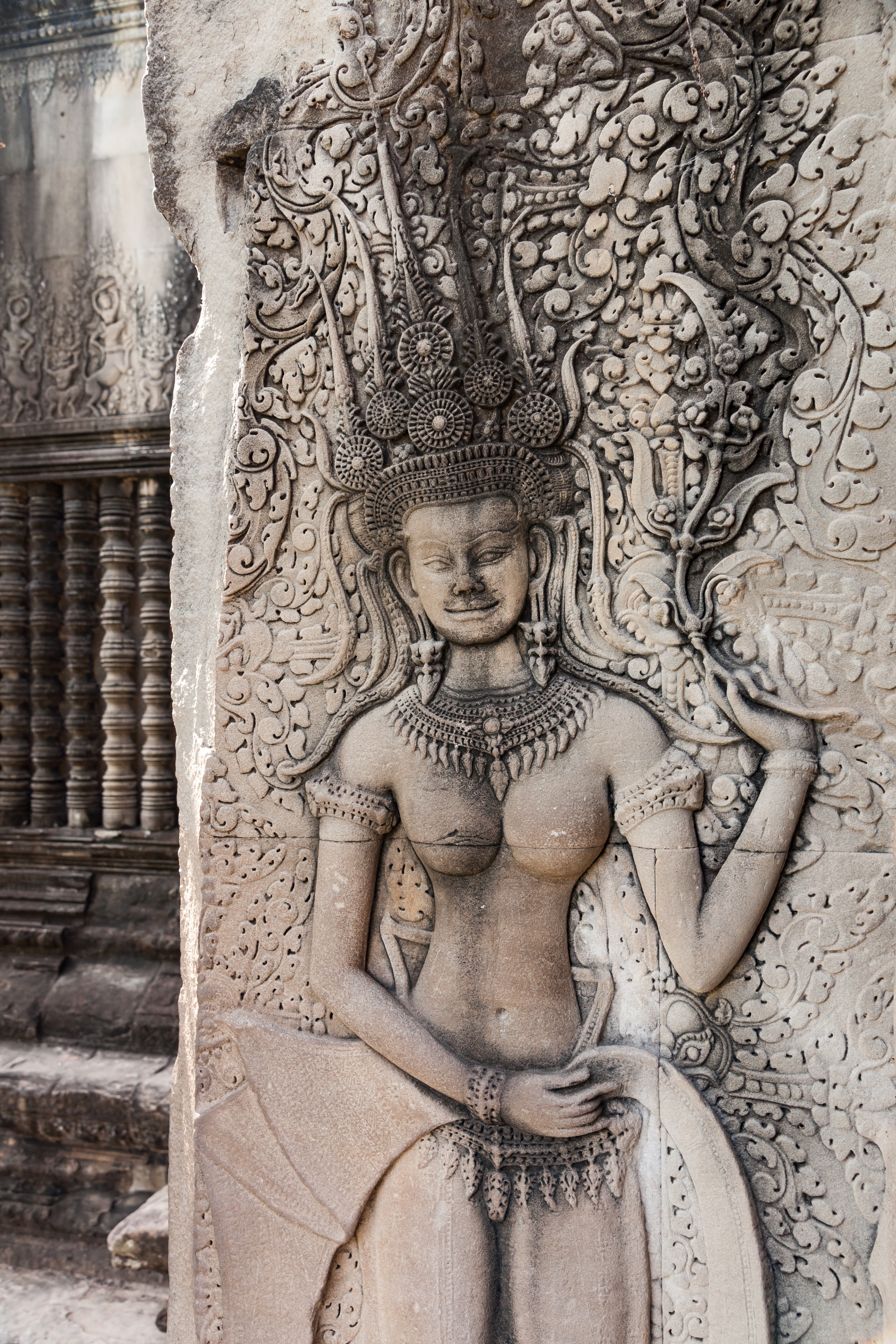 Ankor Wat, Siem Reap, Cambodia: Relief at the Angkor Wat Area